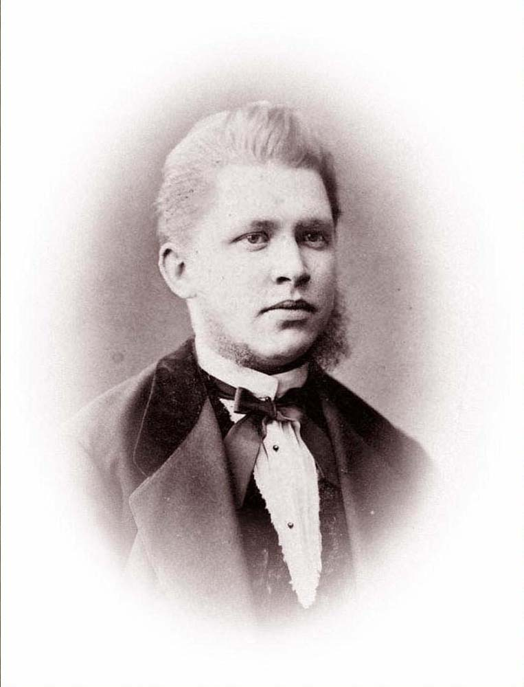 August Theodor Anderson (1850-1906), father of Stefan Anderson, as released by image owner FamSACPlace: Nyköping, Sweden